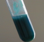 Blue cobalt(II) hydroxide